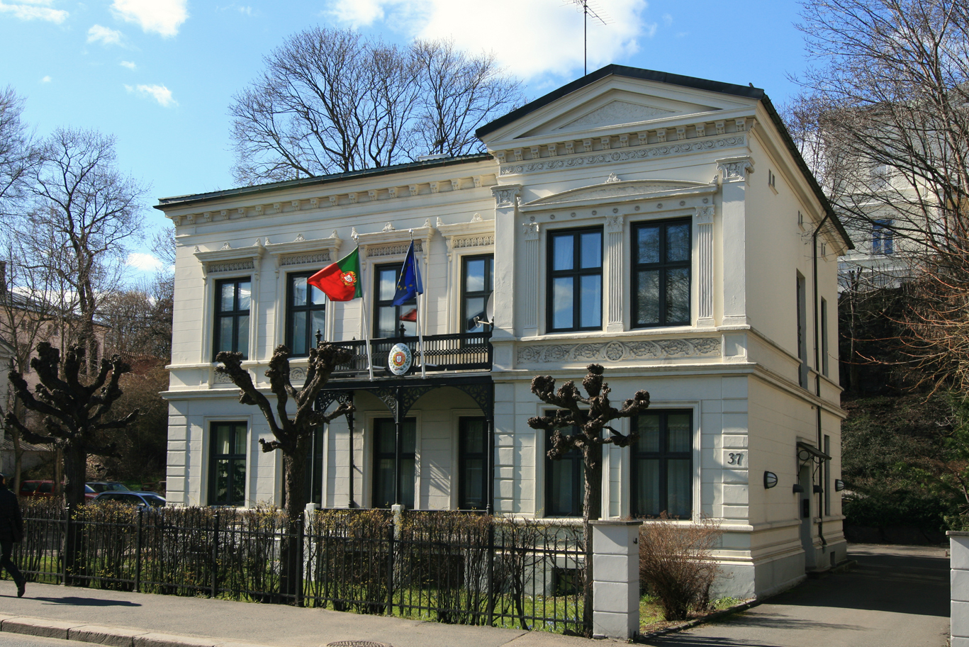 Josefines gate 37, Oslo. Built 1875; architect Niels Stockfleth Darre Eckhoff. Today Portuguese embassy in Norway.